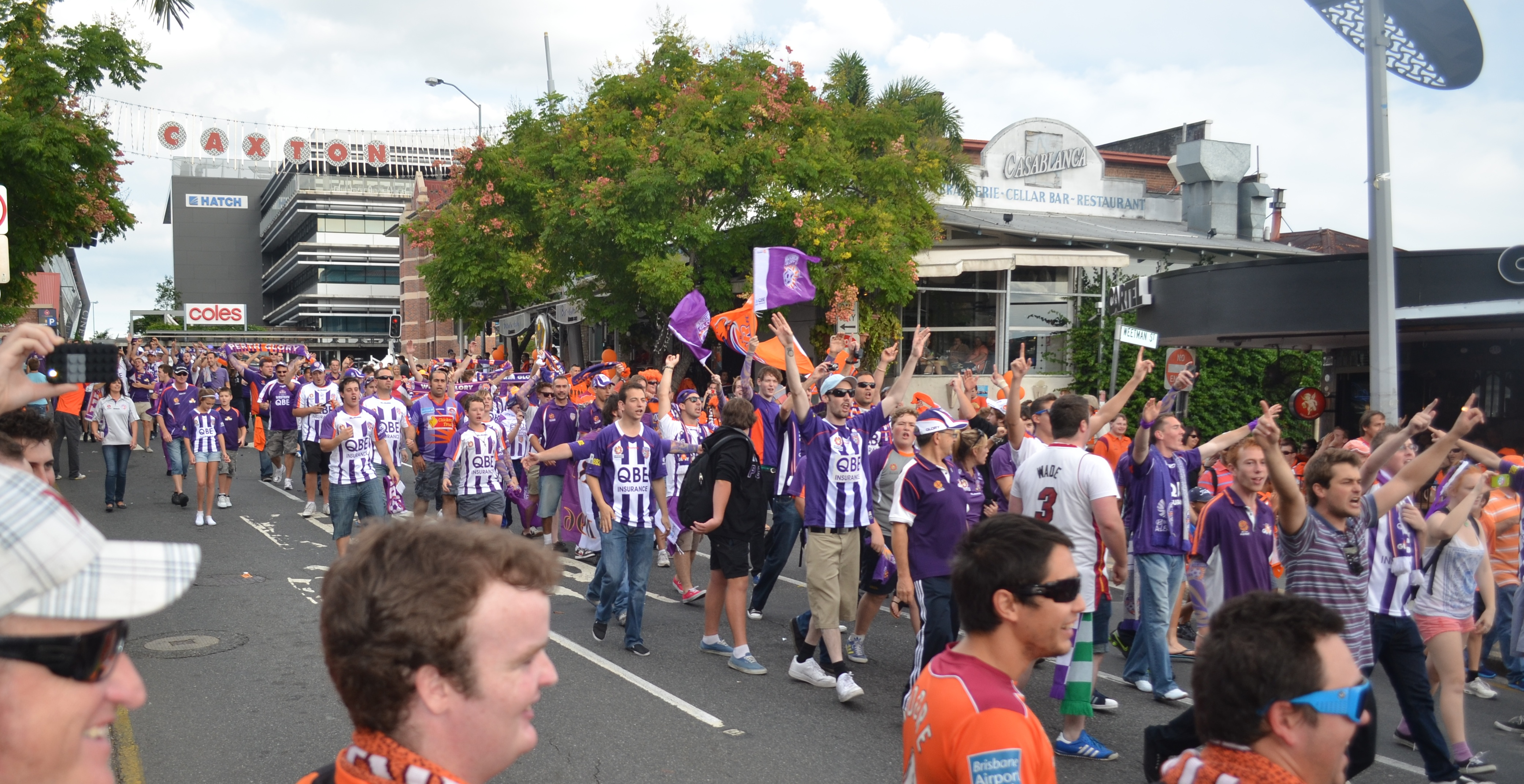 Orange Sunday II, A-League Grand Final, April 22 2012.